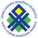 Ziemeļvidzemes Biosfēras rezervāta logo